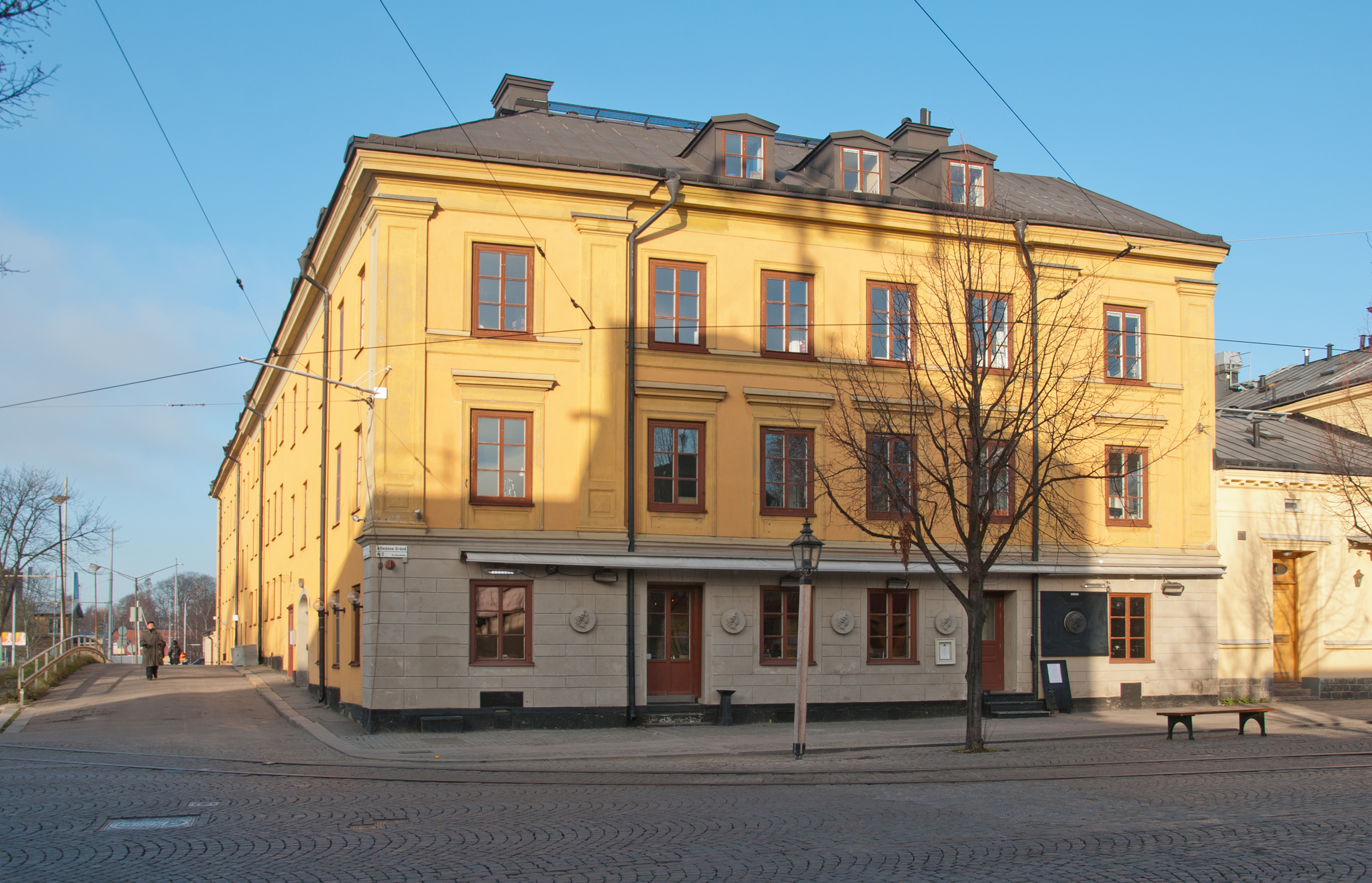 Konsthallen 14